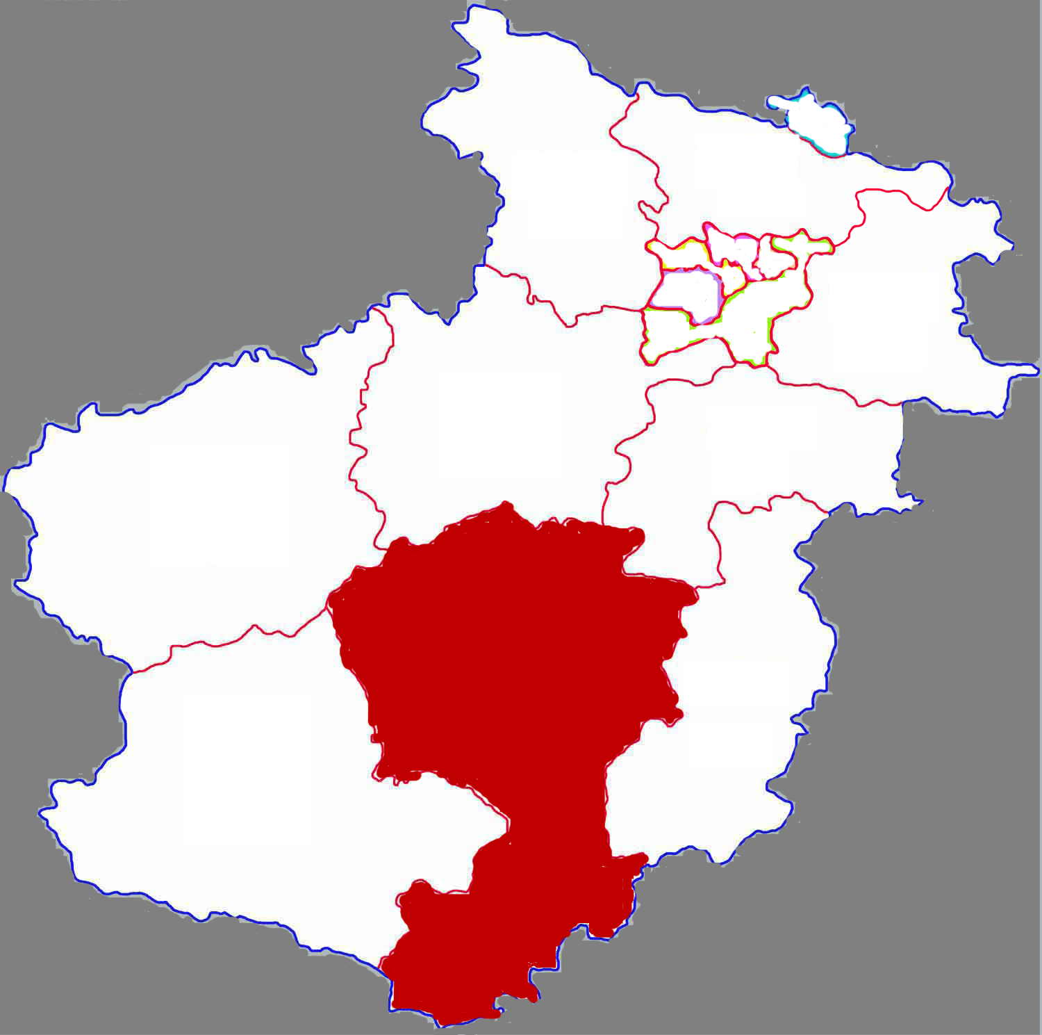 Location of Song county in Luoyang city, China